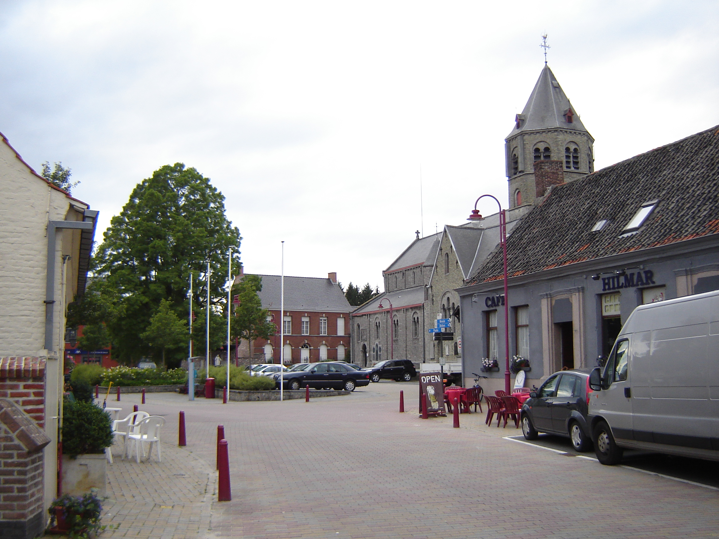 Market square in the village centre of Lotenhulle. Lotenhulle, Aalter, East Flanders, Belgium.